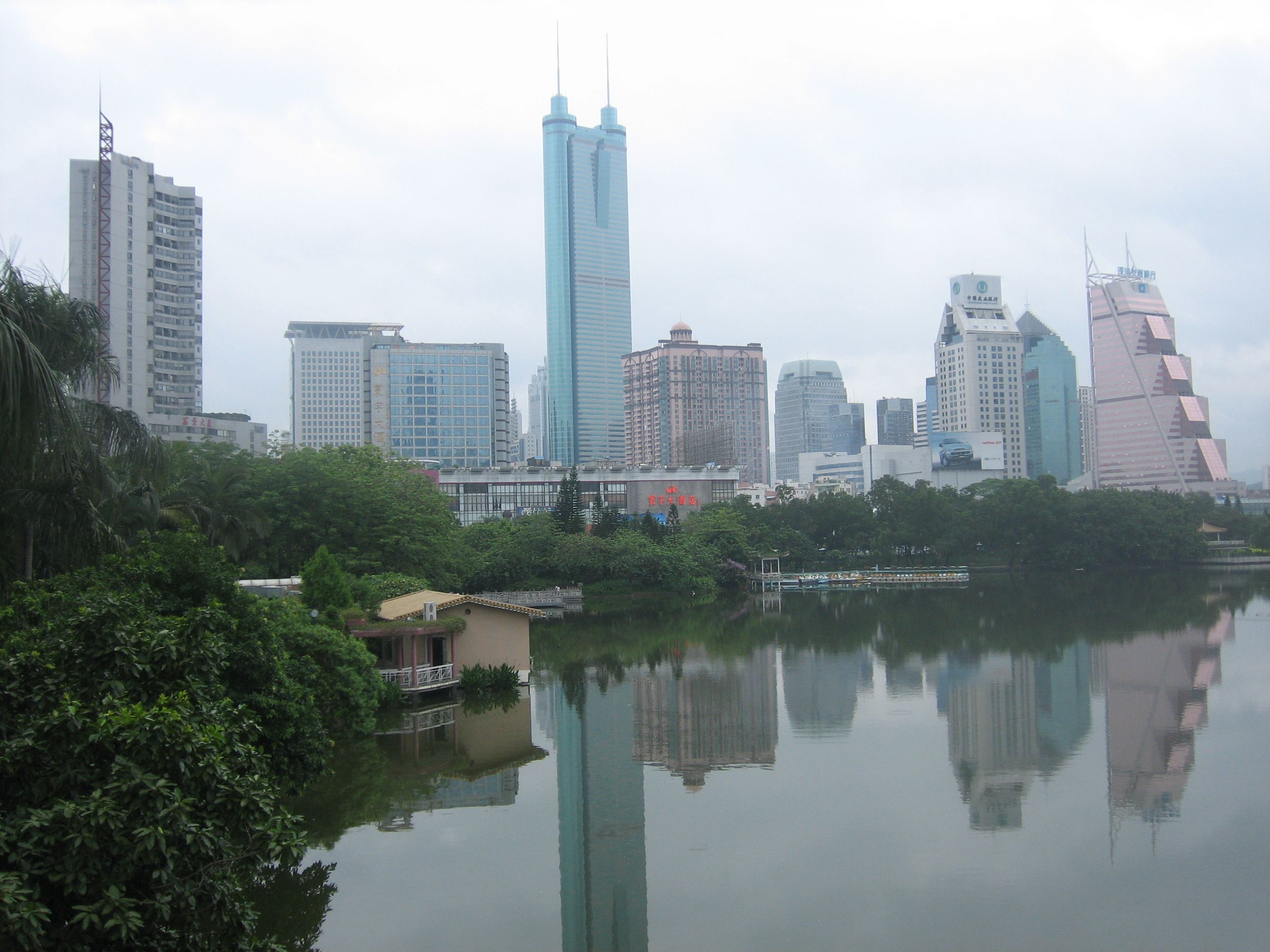 Photo taken by Author (David).